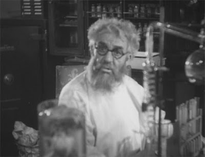 Screenshot from the public domain films Maniac (1934) showing Horace B. Carpenter as the character "Dr. Meirschultz"